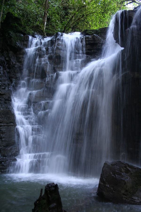 Cascada de Latas